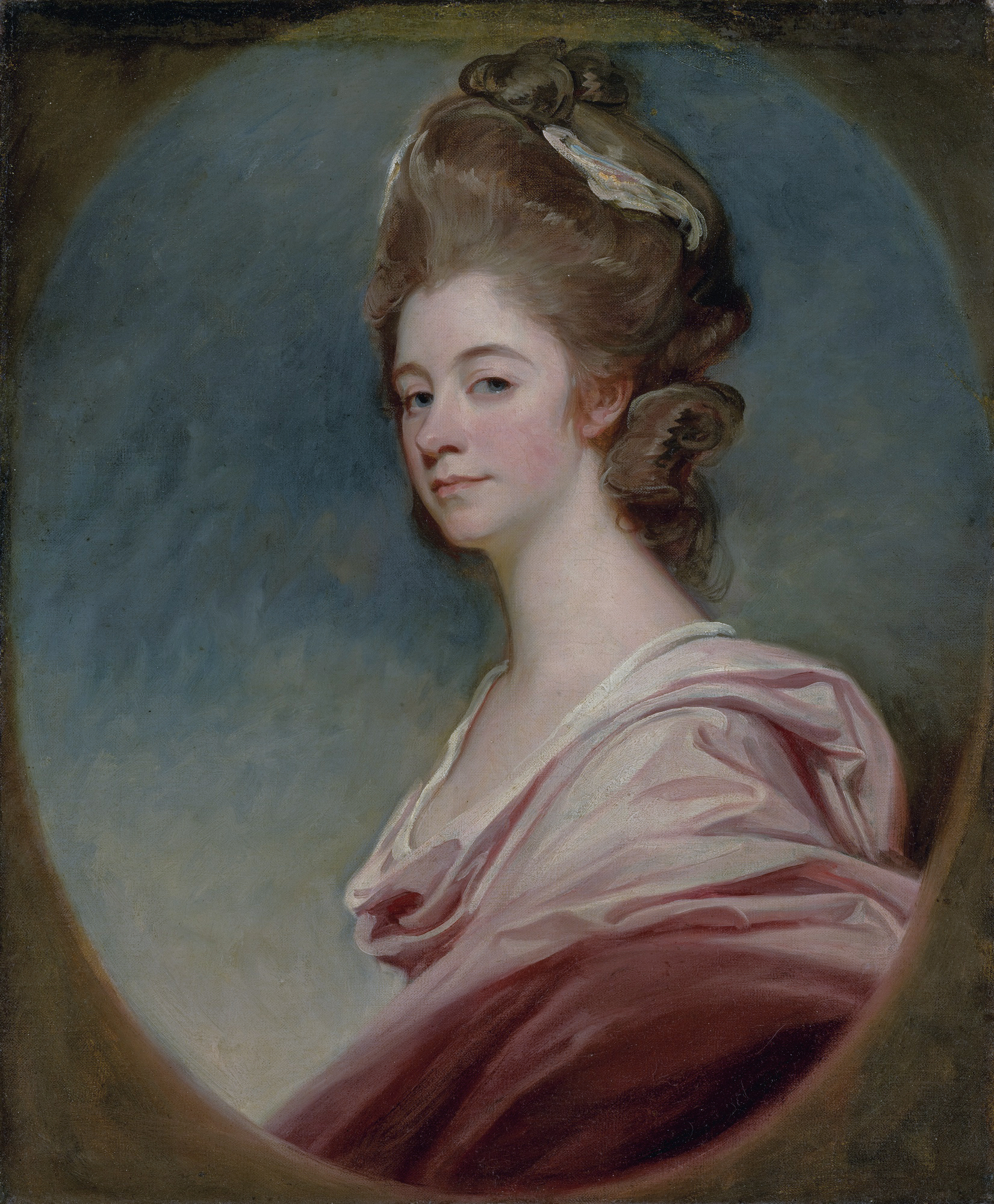 Lady Emilia Kerr (1756-1832) oil on canvas 76.2 x 62.8 cm. Lady Emilia Kerr was the daughter of William, 4th Earl of Ancram (who succeeded as 4th Marquis of Lothian in 1767) and Lady Caroline, née Darcy, daughter of Robert, 3rd Earl of Holdernesse. She married John McLeod in 1783.